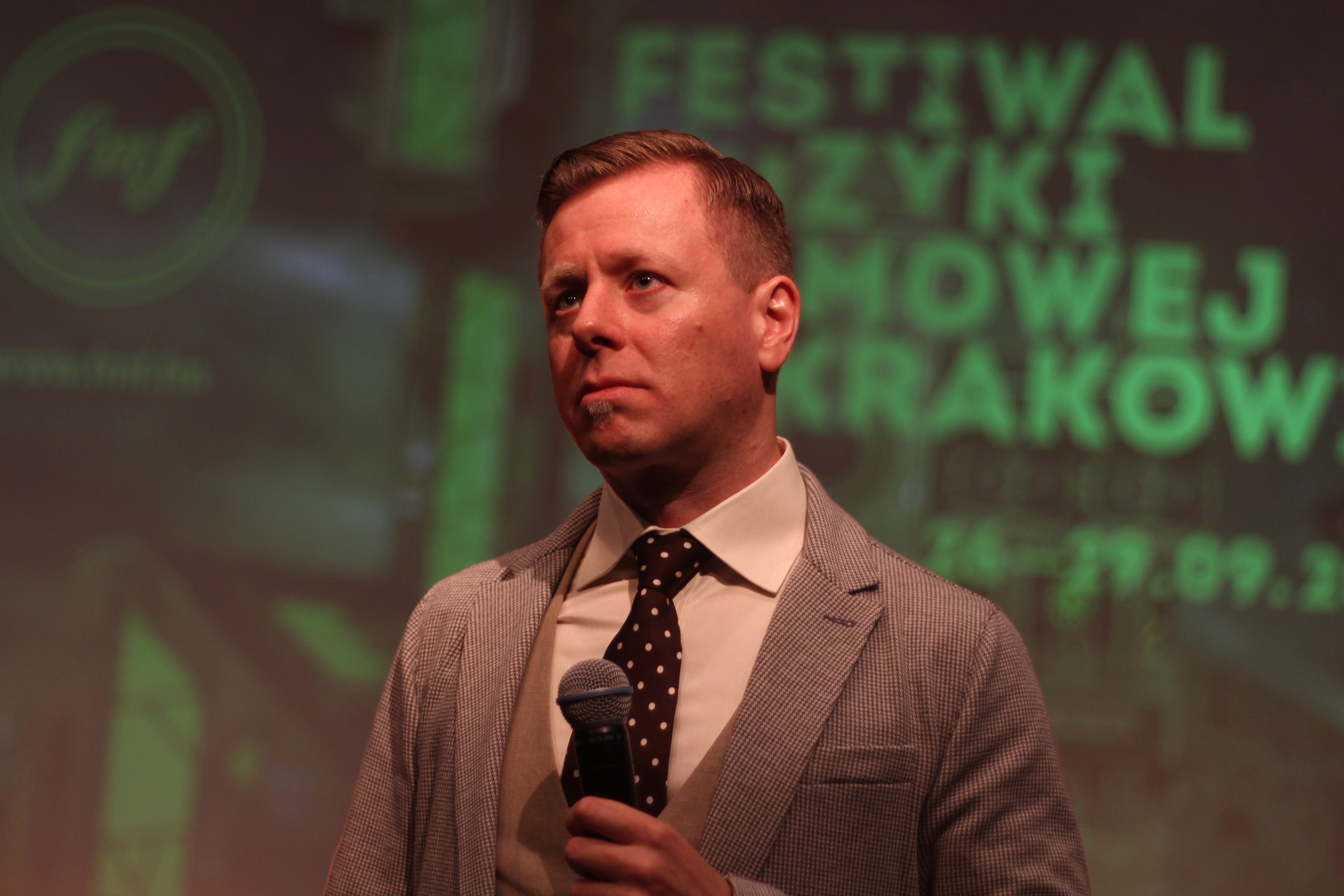 Polish composer Abel Korzeniowski during Q&A pannel at Film Music Festival in Cracow.